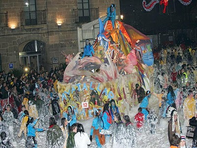 'Avatallar' el artilugio ganador en 2010.